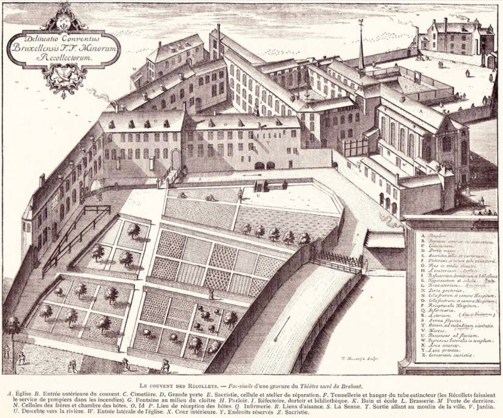 Franciscan Recollects monastery (or convent) in Brussels. 1884 reproduction of a 17th C engraving by J. Harrewijn.